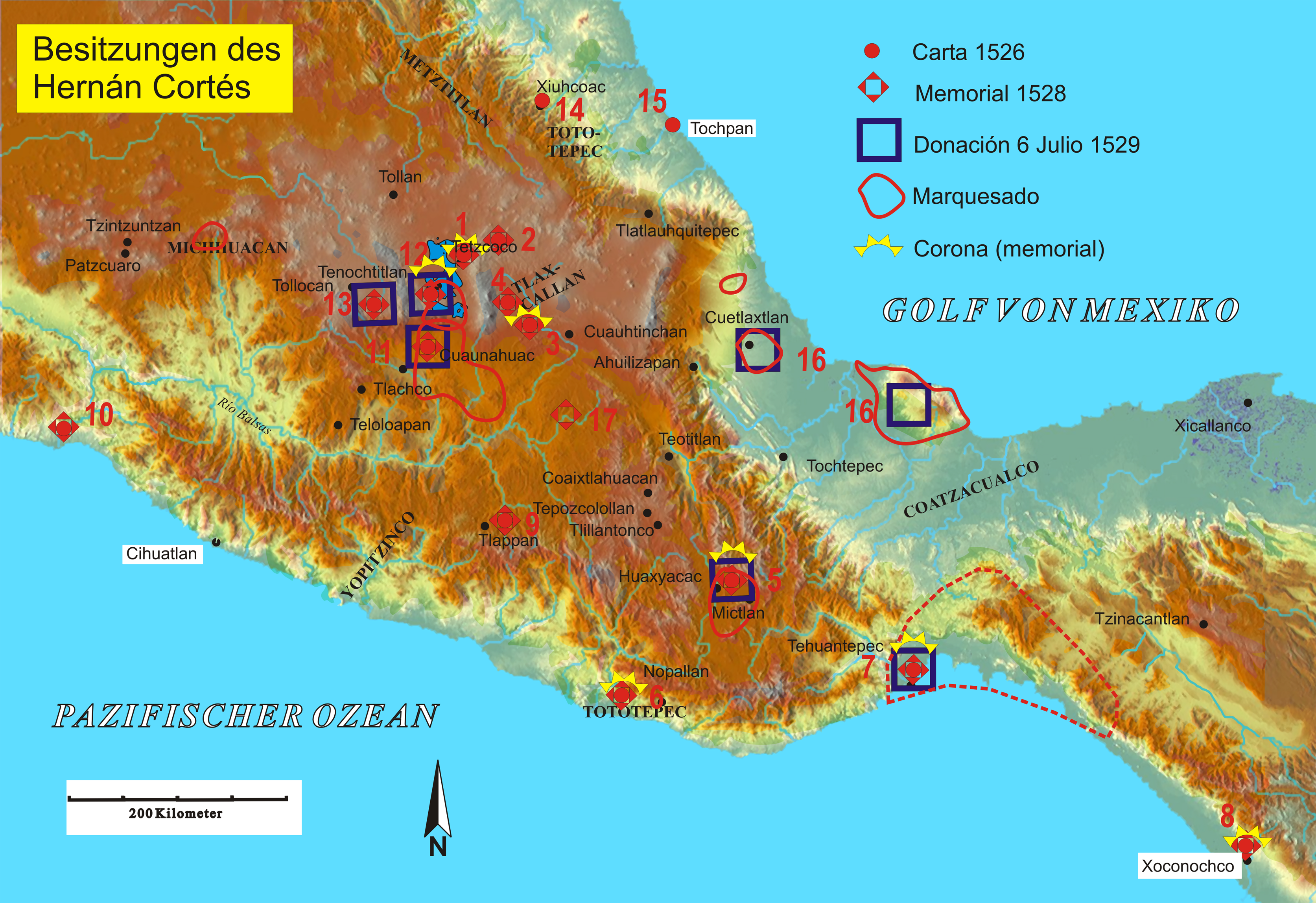 Properties of Hernán Cortés